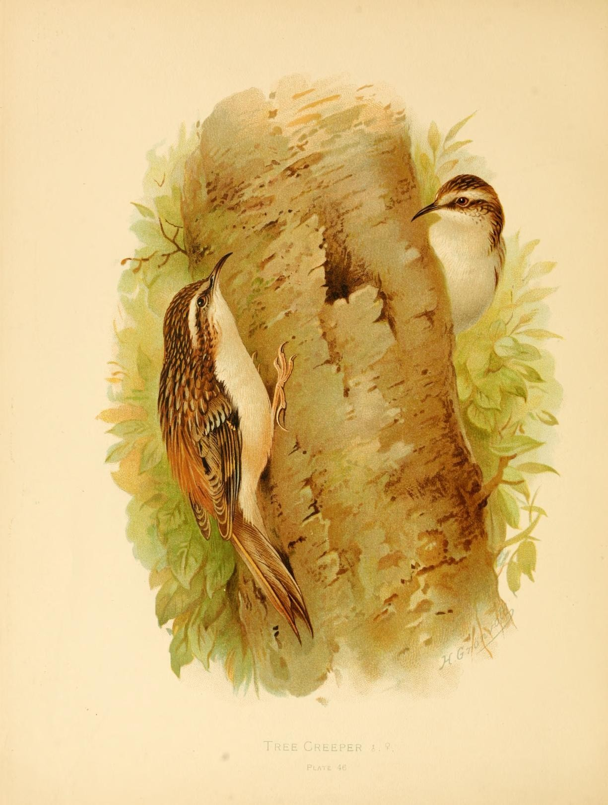 . f. v.. Khit.l-'h.r; Plate 16